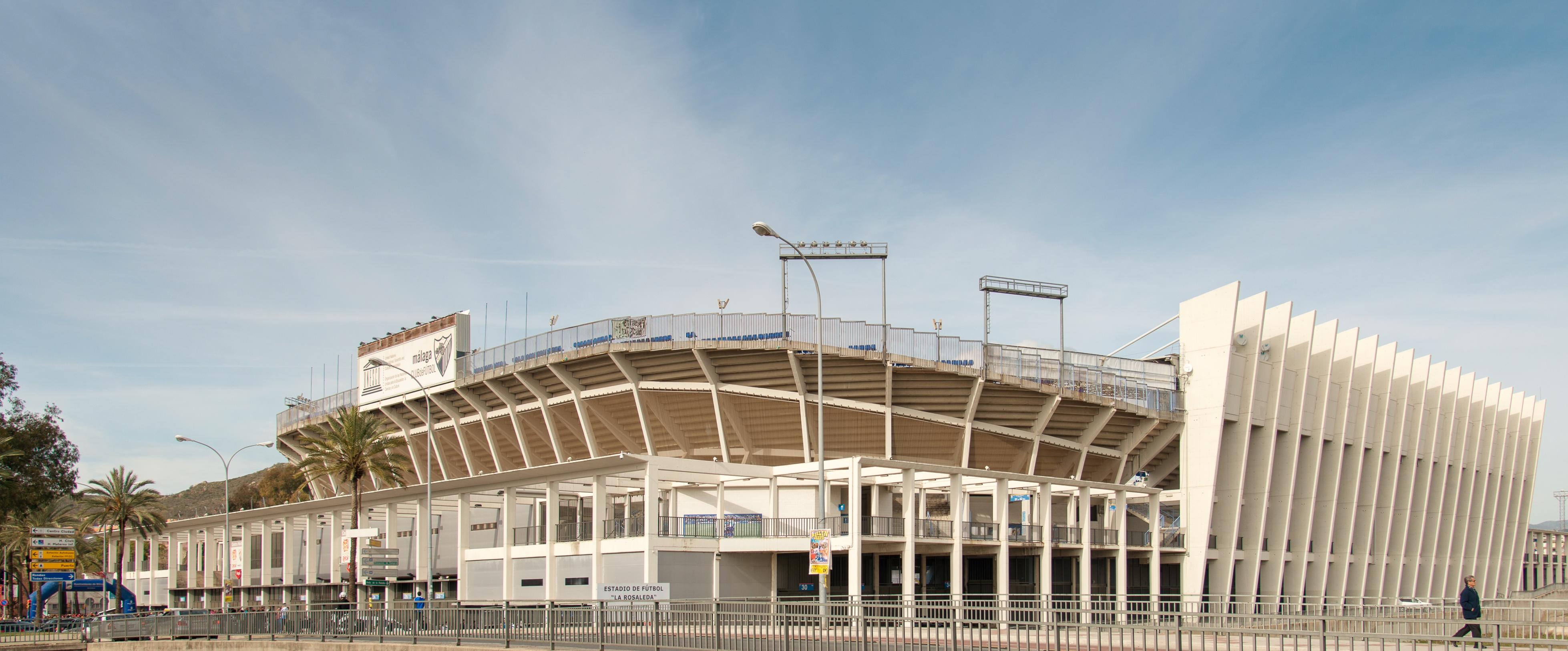 Málaga, Soccer stadium "La Rosaleda" (as seen from South-East) with the dried bed of the Guadalmedina river in the foreground.